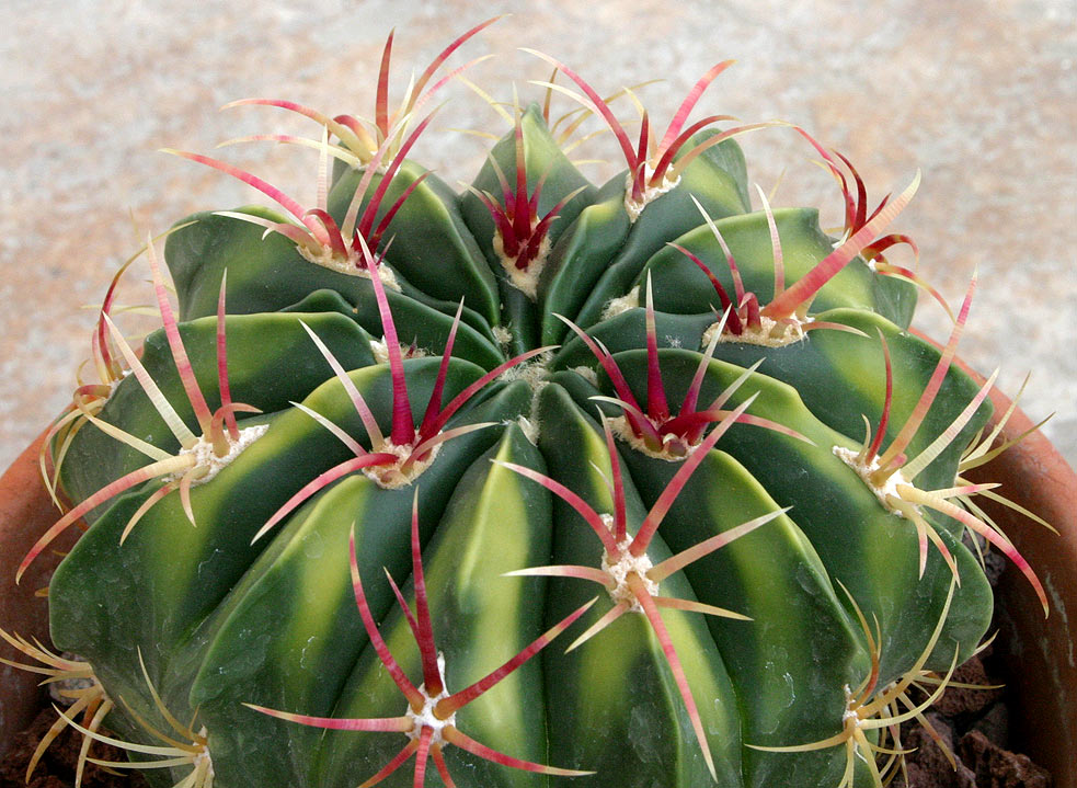 author: Manuel Ramos